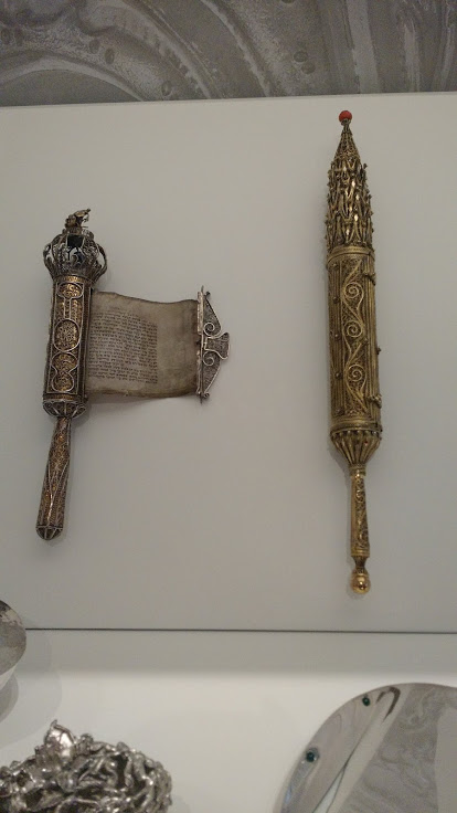 Scroll is from 19th century, ink on vellum. Case is gilded silver filigree, coral.